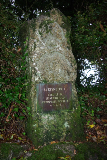 St Keyne's Well. This plaque, erected by the Liskeard Old Cornwall Society in 1936, stands opposite the well - see 1556008.